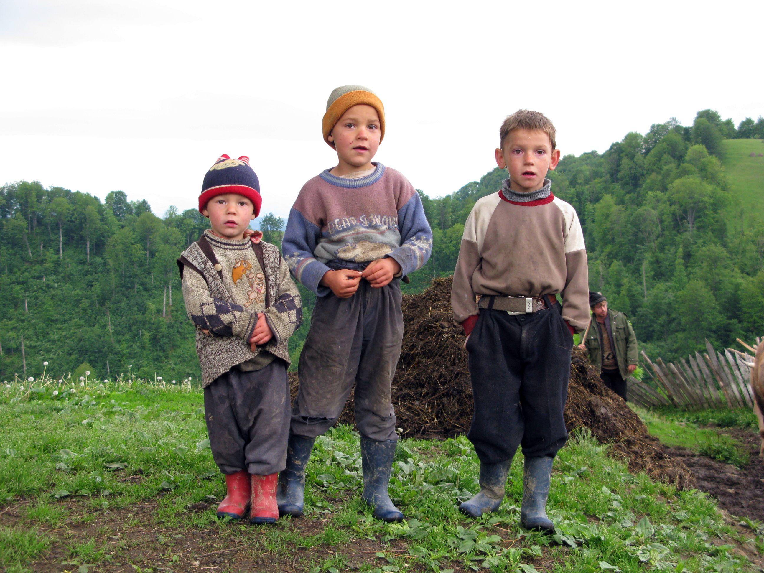 Three boys at the hillfort Obcina Poienile de sub Munte / Maramureş Mountains (Inner Eastern Carpathians) in north of Rumania / EU.